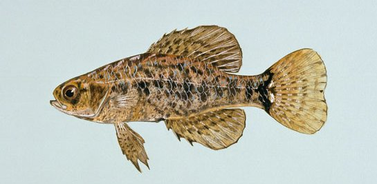 Pygmy sunfish (Elassoma sp.). Drawing by Duane Raver.